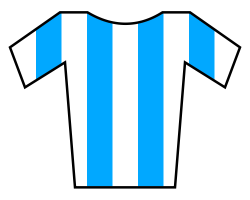 White and azure striped t-shirt